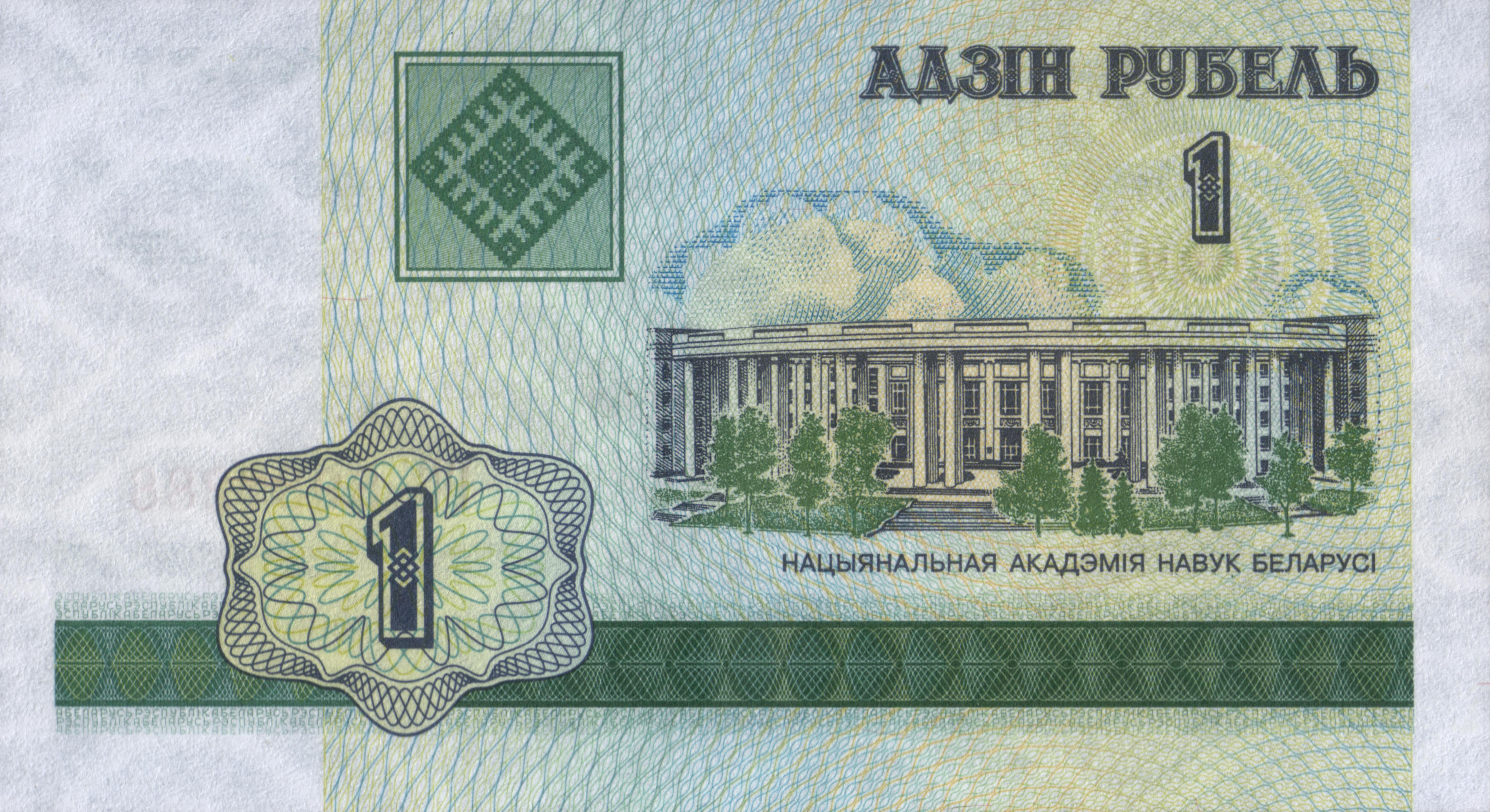 1 rouble of Belarus (2000)